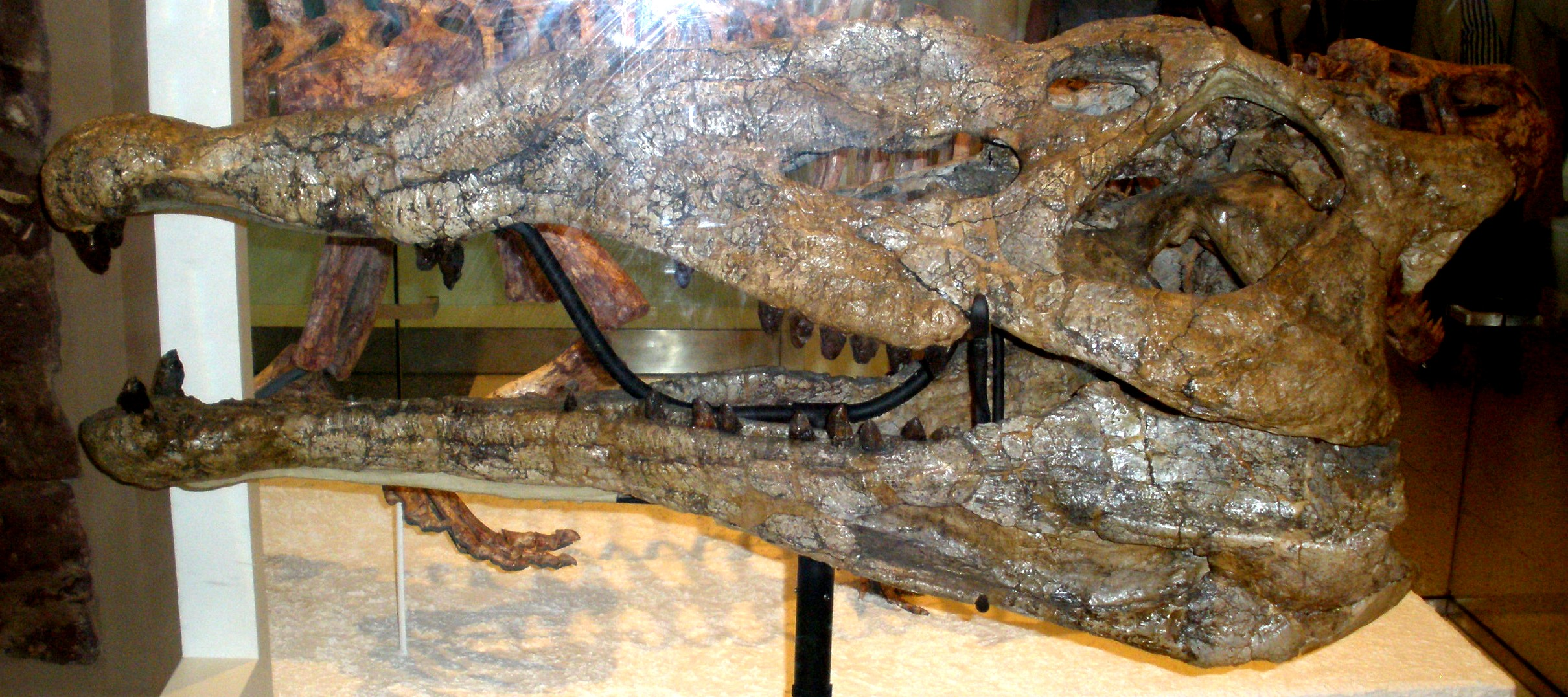 Skull of Leptosuchus or Machaeroprosopus gregorii, a fossil phytosaur DateApril 2008Sourcetook the foto on the "American Museum of Natural History" in New YorkAuthorGhedoghedoPermission (Reusing this file)